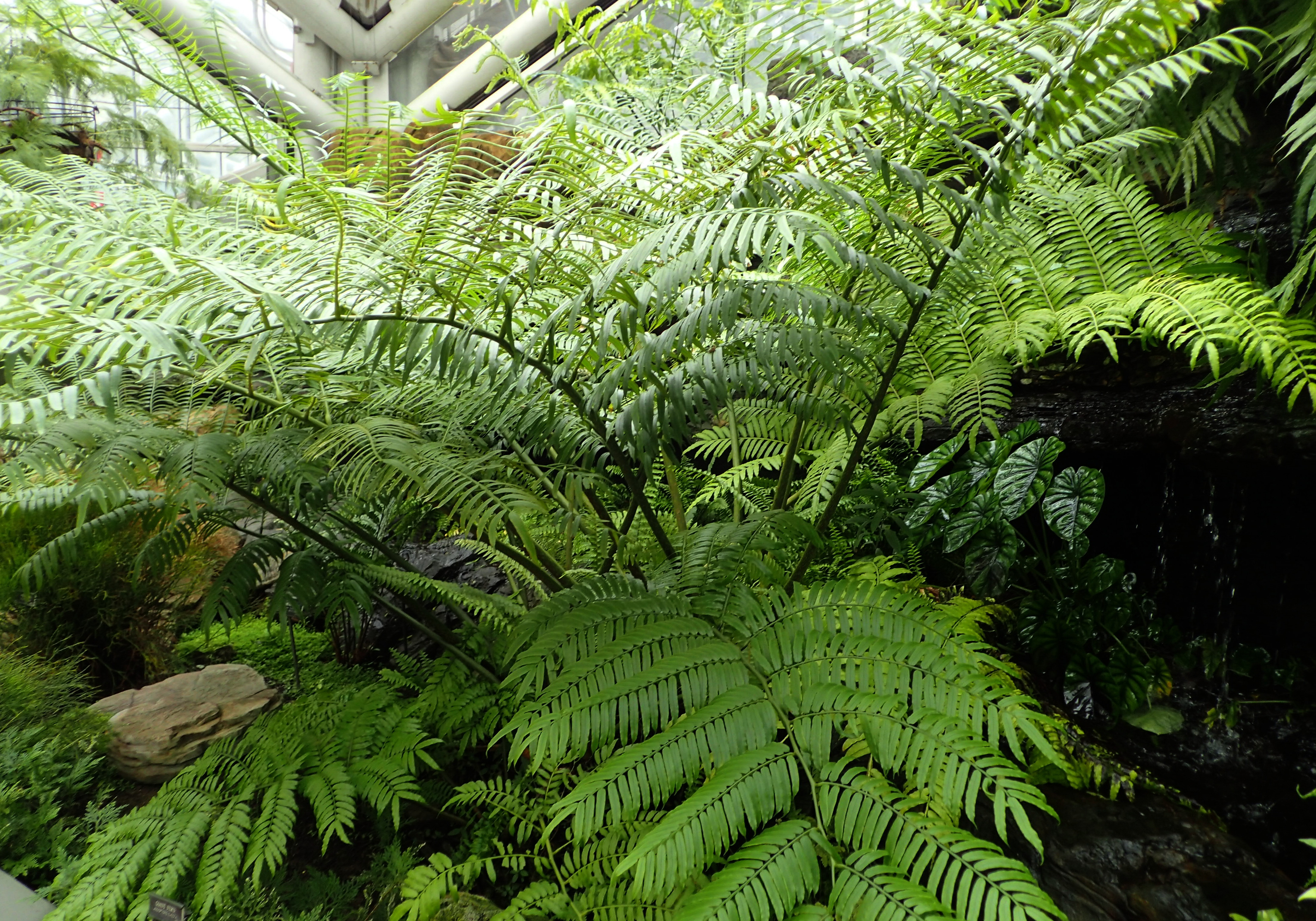 Angiopteris evecta in the Brooklyn Botanic Garden